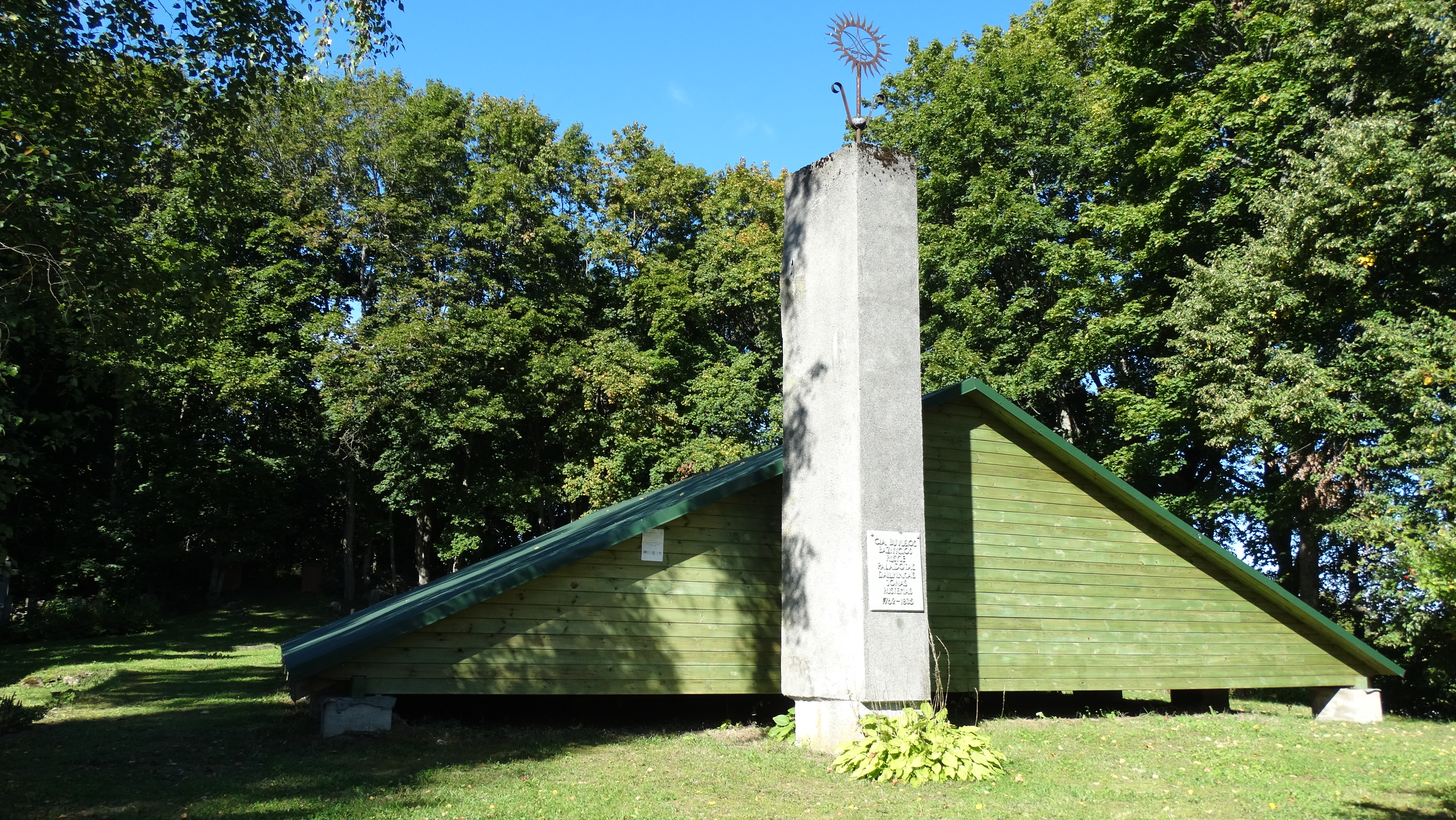 Memorial stela to Jan Rustem, Dūkšteliai, Ignalina District, Lithuania